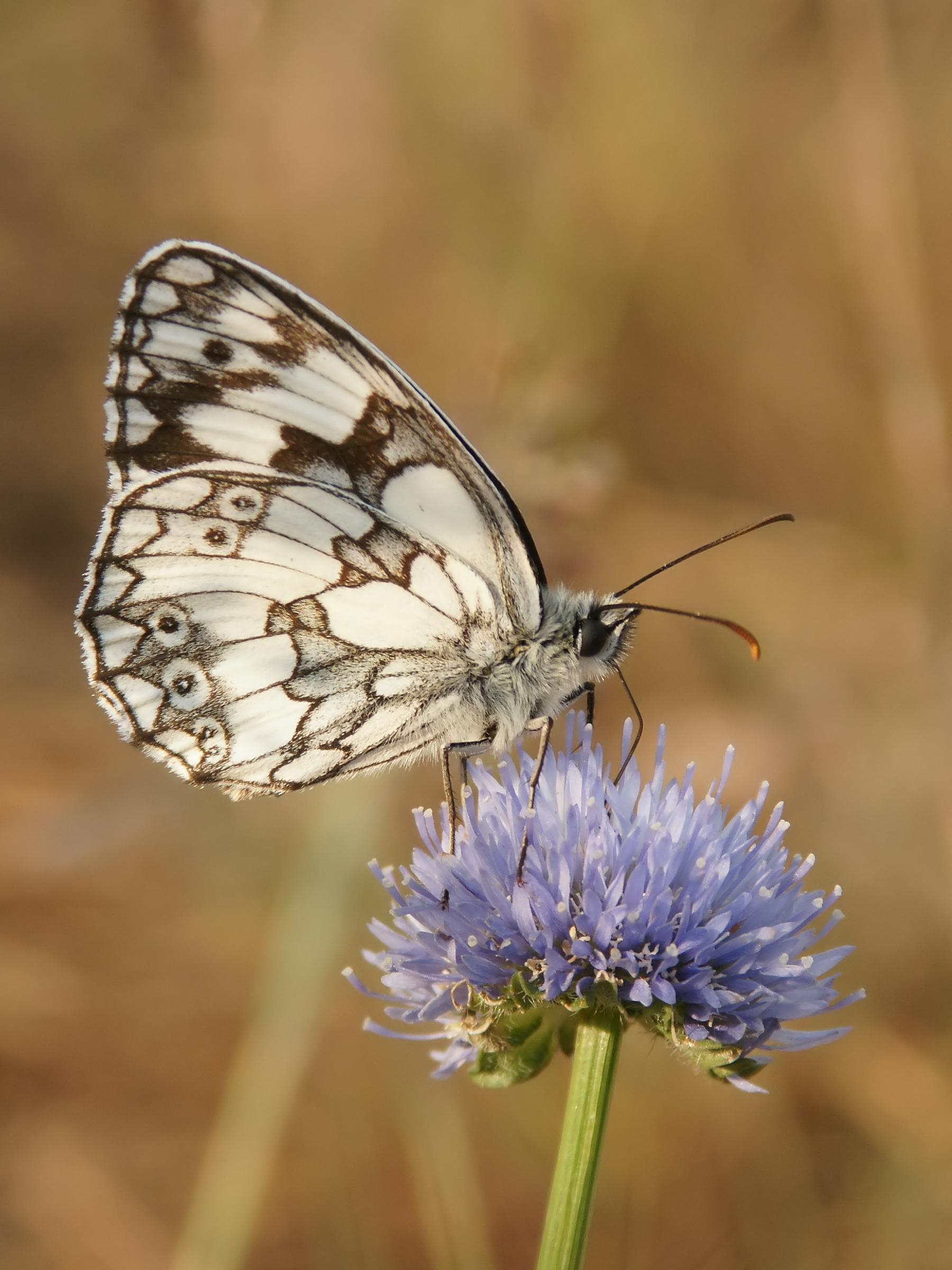 Melanargia galathea